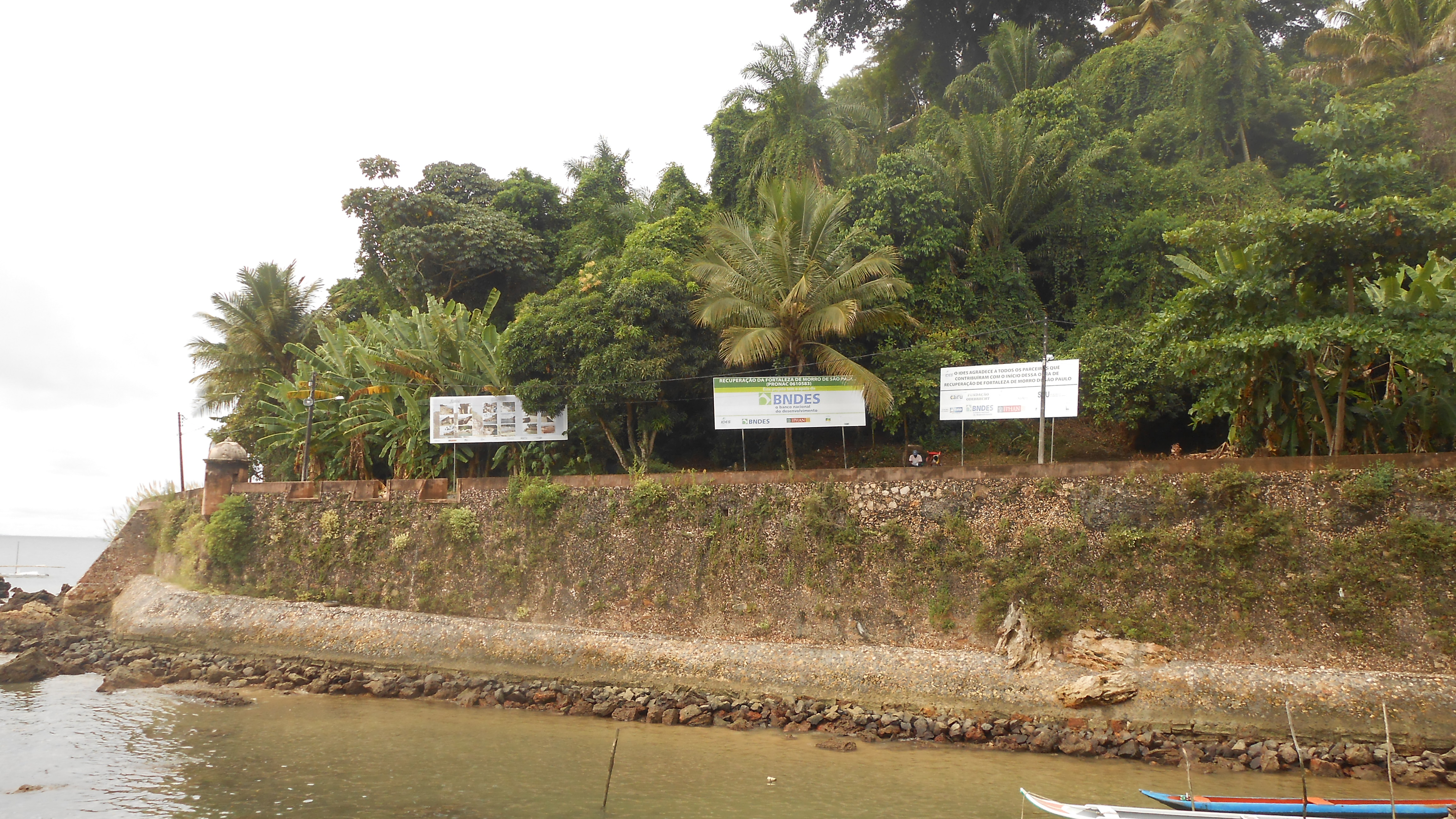 Information billboard of the Brazilian Development Bank BNDES at the Morro de Sao Paulo fortress.